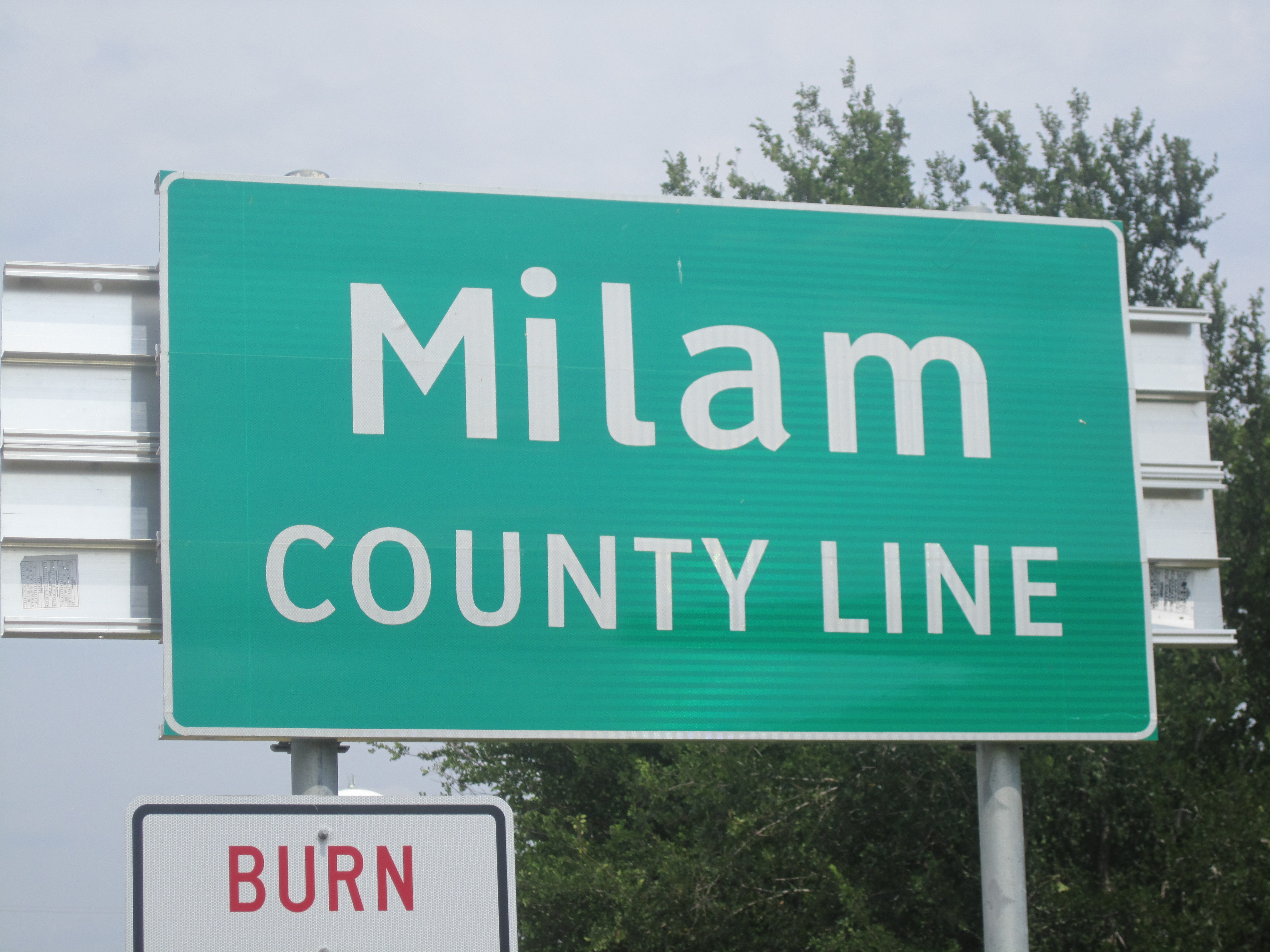 I took photo of Milam County, TX, sign with Canon camera.